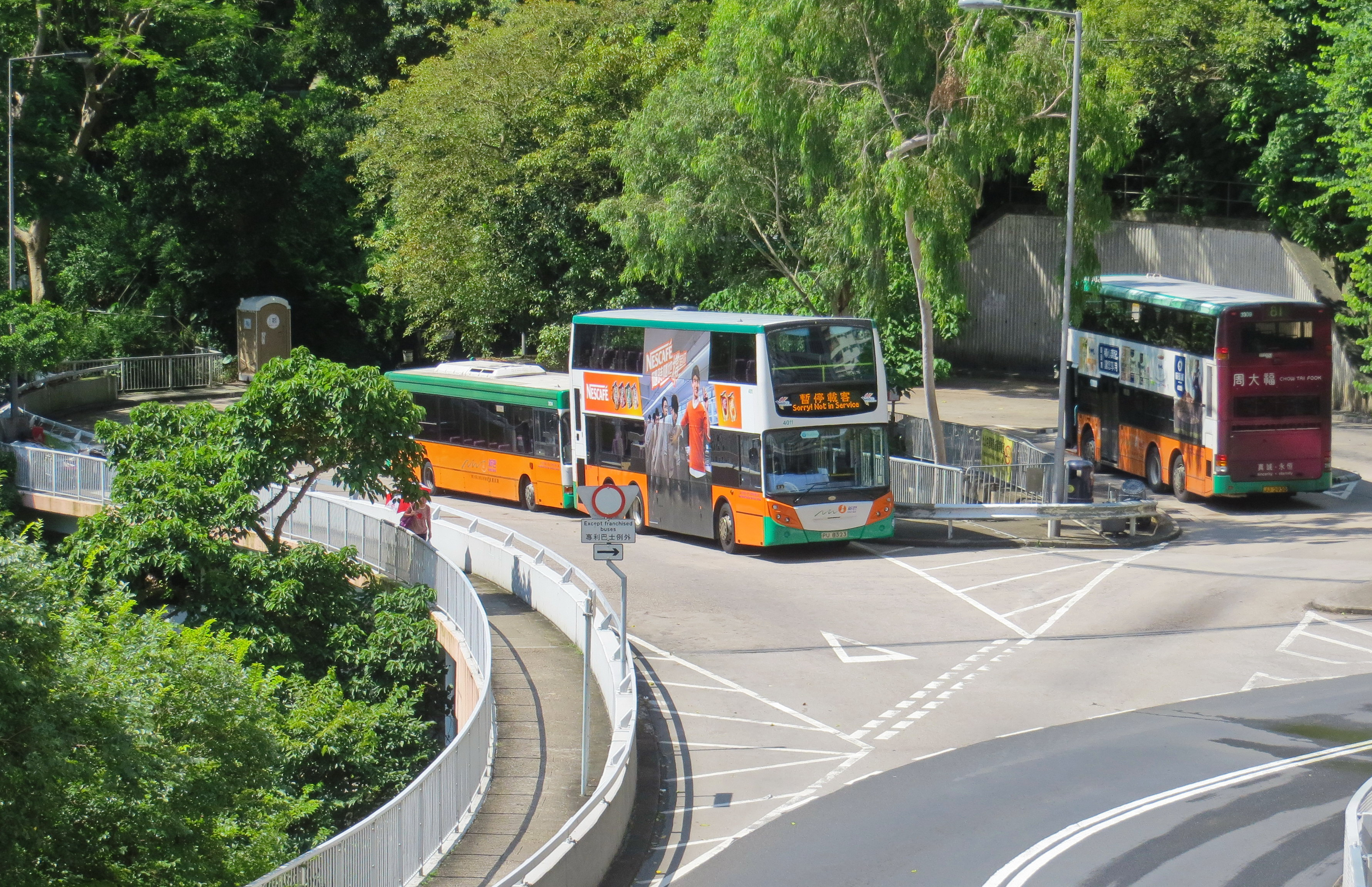 Lai Tak Tsuen Bus Terminus, Hong Kong.